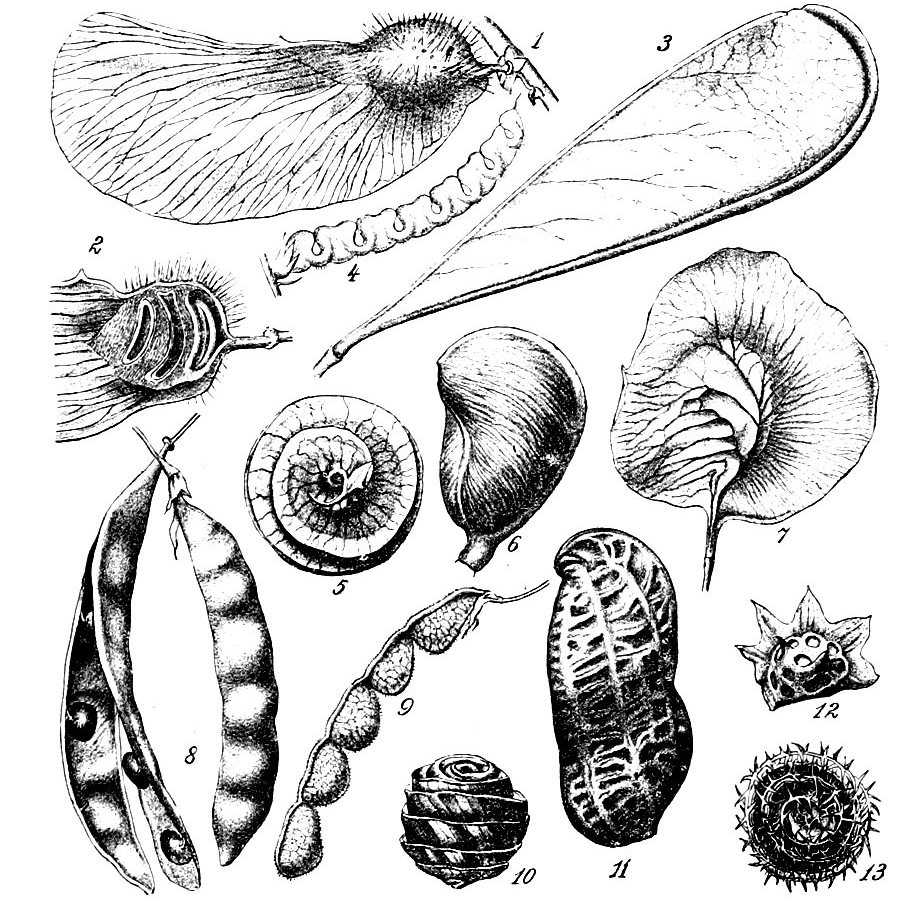 Illustrations of various seed pods of the Wikipedia:Papilionaceae: 1. Centrolobium robustum 2. Cutaway of Centrolobium robustum 3. Schizolobium excelsum 4. Hippocrepis unisiliquosa 5. Medicago orbicularis (top view) 6. Peltogyne paniculata 7. Pterocarpus indicus 8. Laburnum anagyroides 9. Desmodium canadense 10. Medicago orbicularis (side view) 11. Arachis hypogaea 12. Onobrychis aequidentata 13. Medicago granadensis